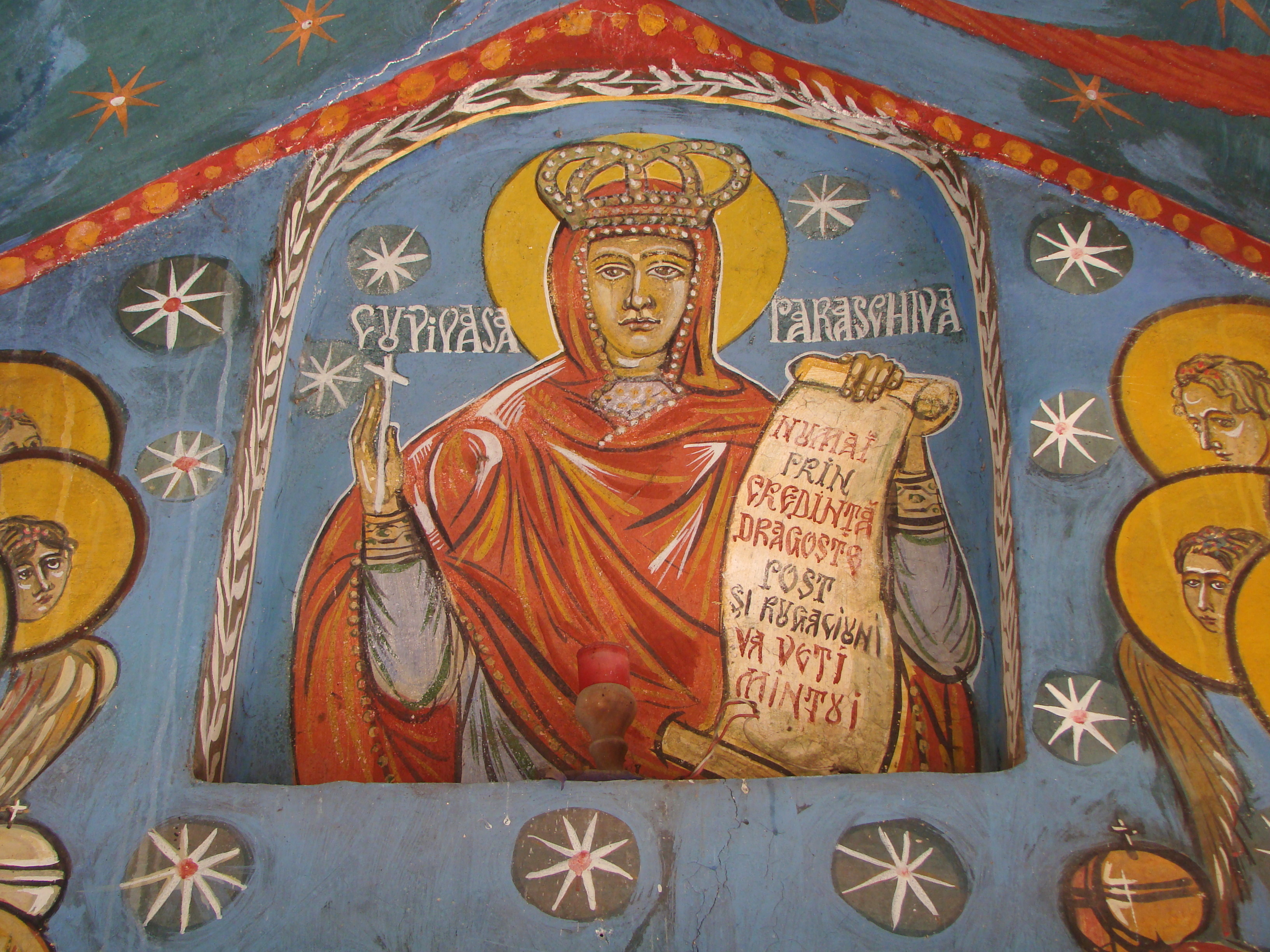 Saint Paraskeva's church in Zlaști, Hunedoara county, Romania